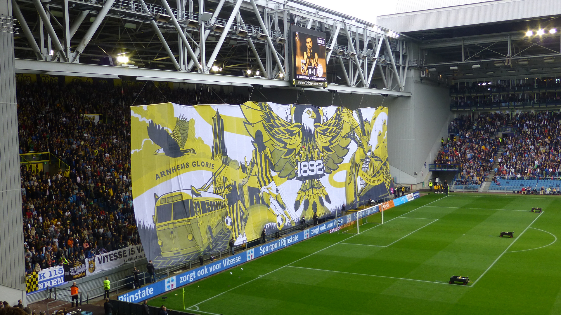 Banner in front of the Theo Bos South stand in GelreDome shortly before kickoff of the Eredivisie match Vitesse vs. Ajax